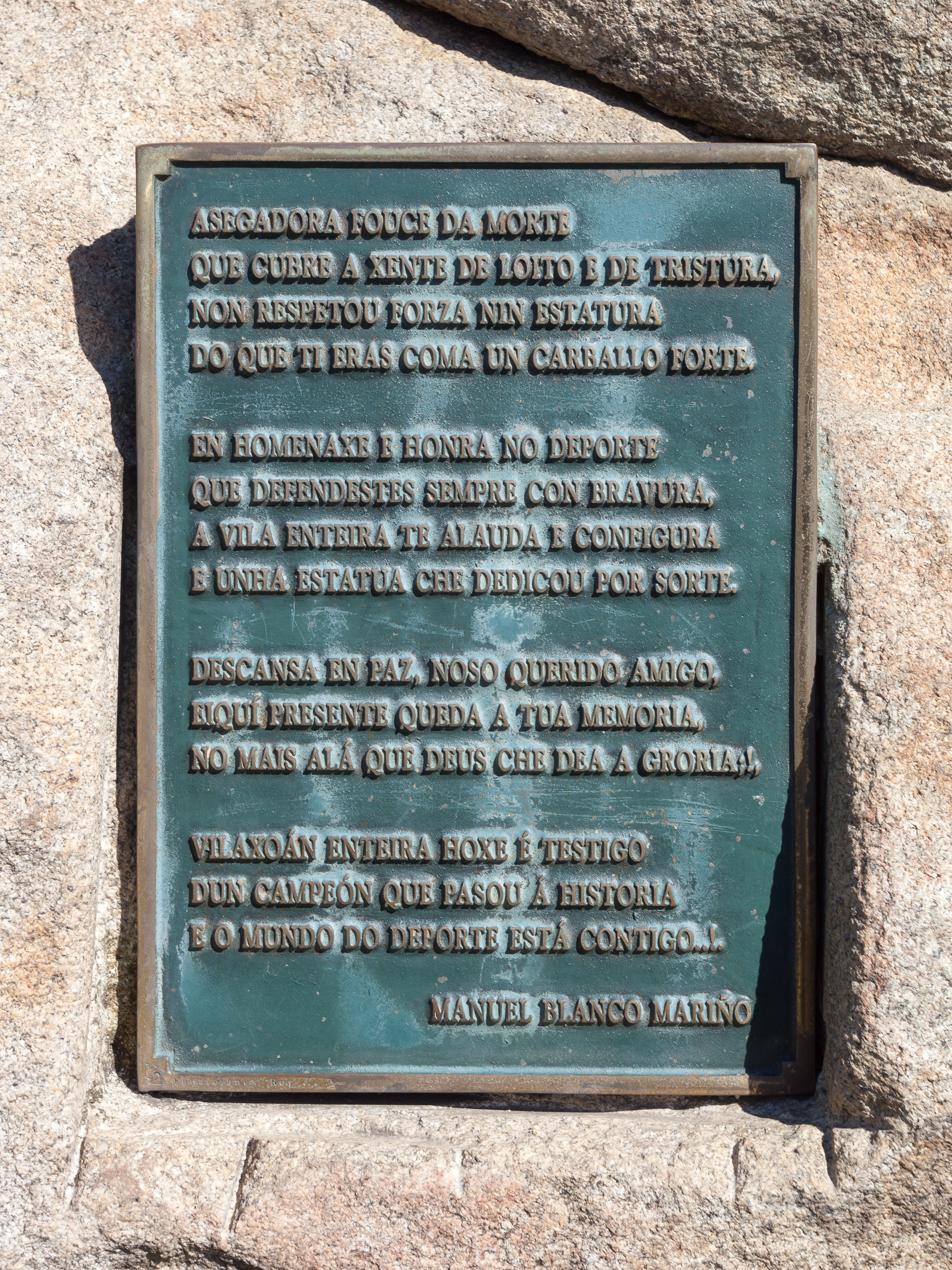 Text of the sculpture of Pantera Rodríguez, by Alfonso Vilar, Vilaxoán, Sobrán, Vilagarcía de Arousa, Galicia (Spain).